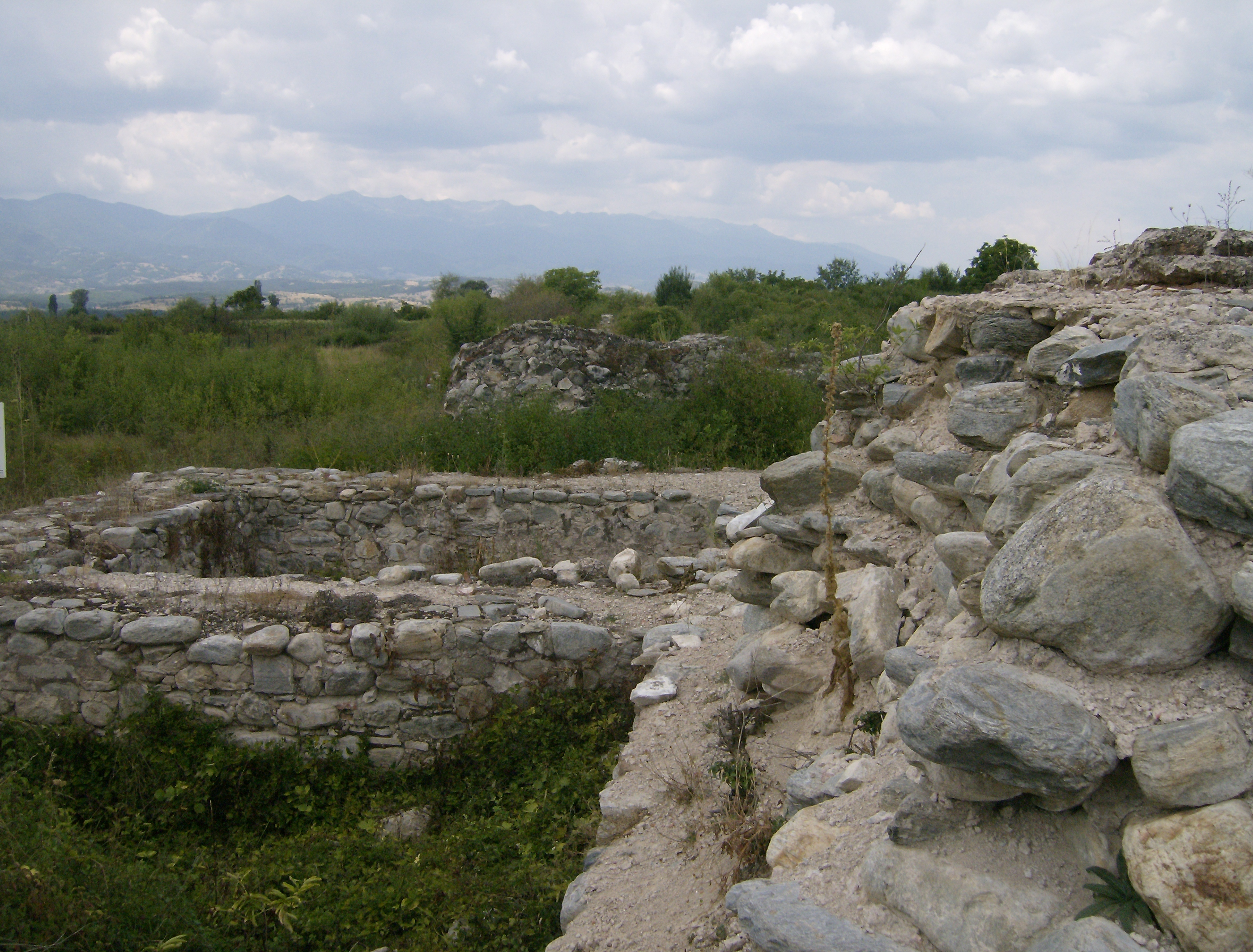 Nicopolis ad Nestum